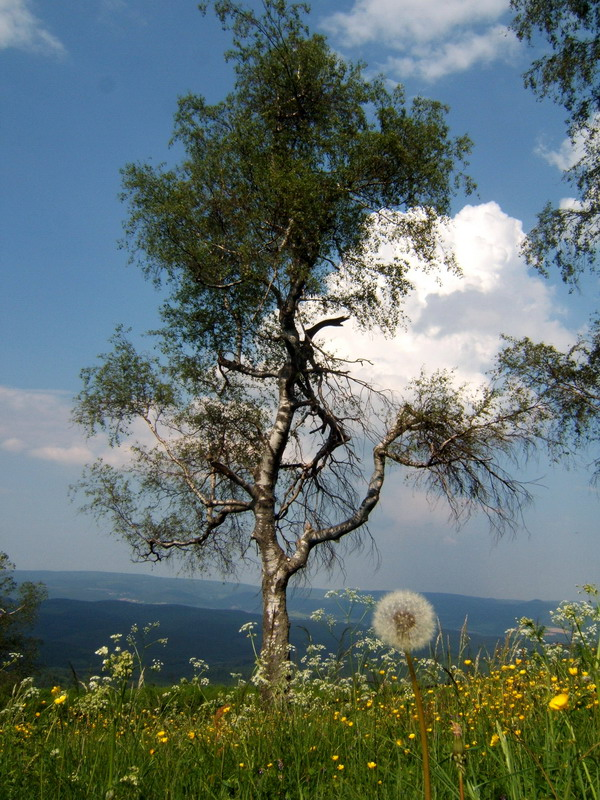 Birch on the Dolmar, Thuringia, Germany